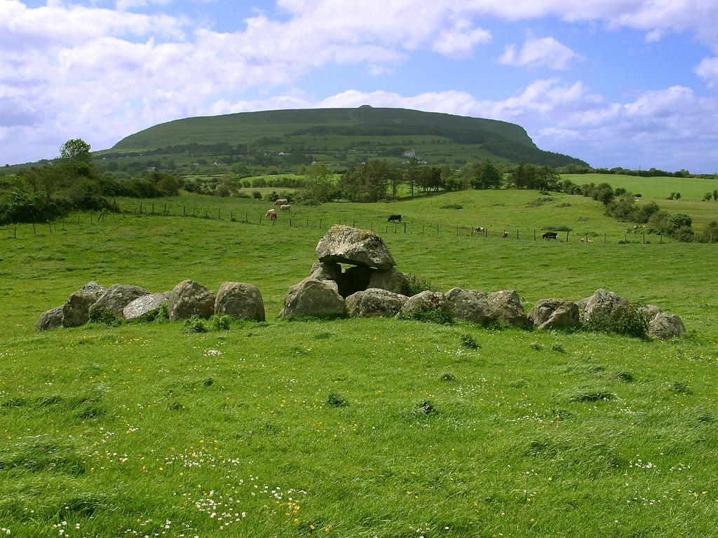 Knocknarea with a Carrowmore tomb in the foreground.